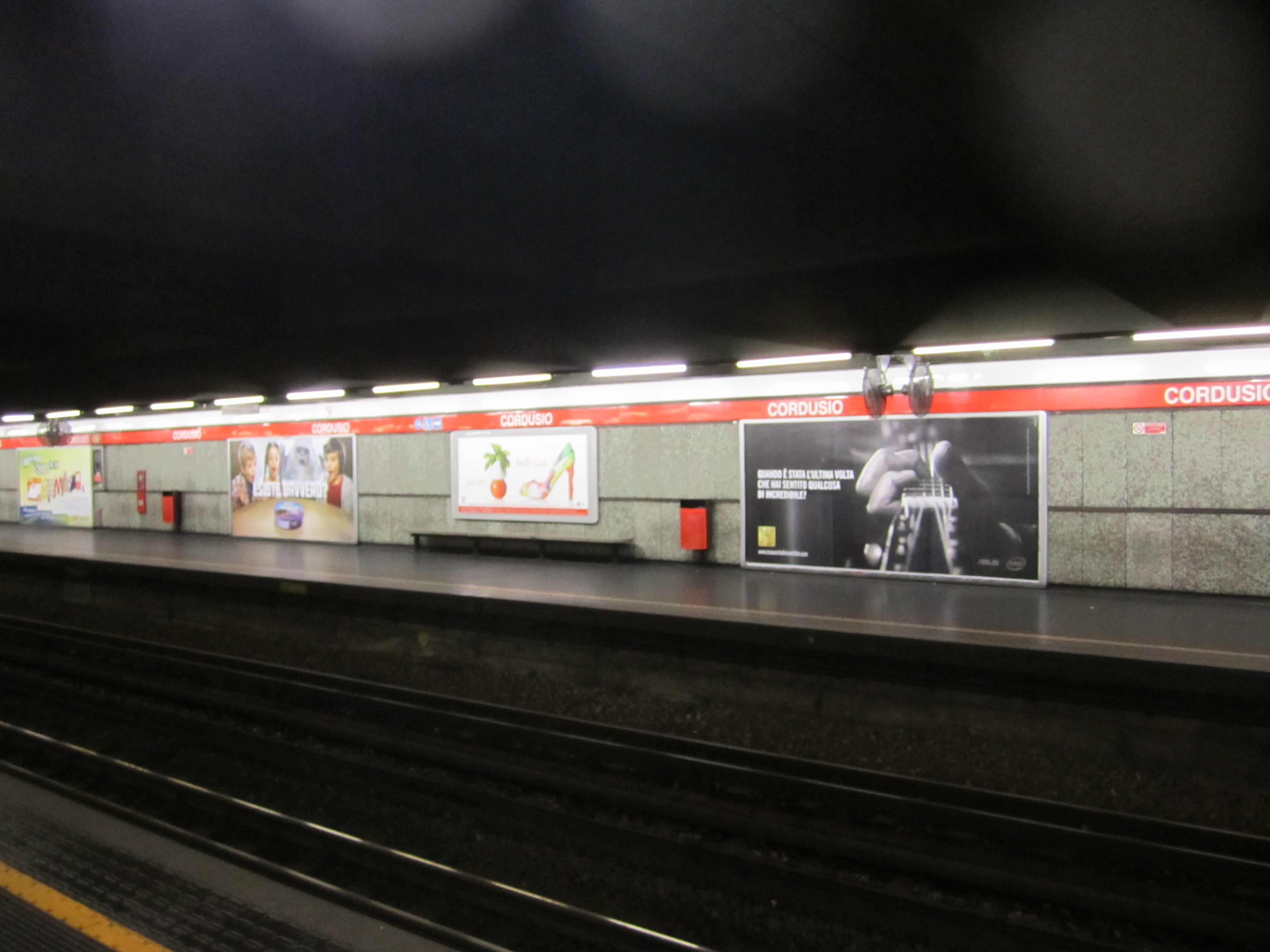 Metro station Cordusio (Milano)